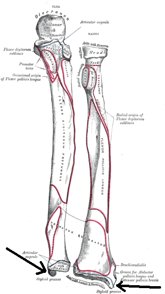 This is an anatomy image (from Gray's Anatomy) with arrows to help the layperson